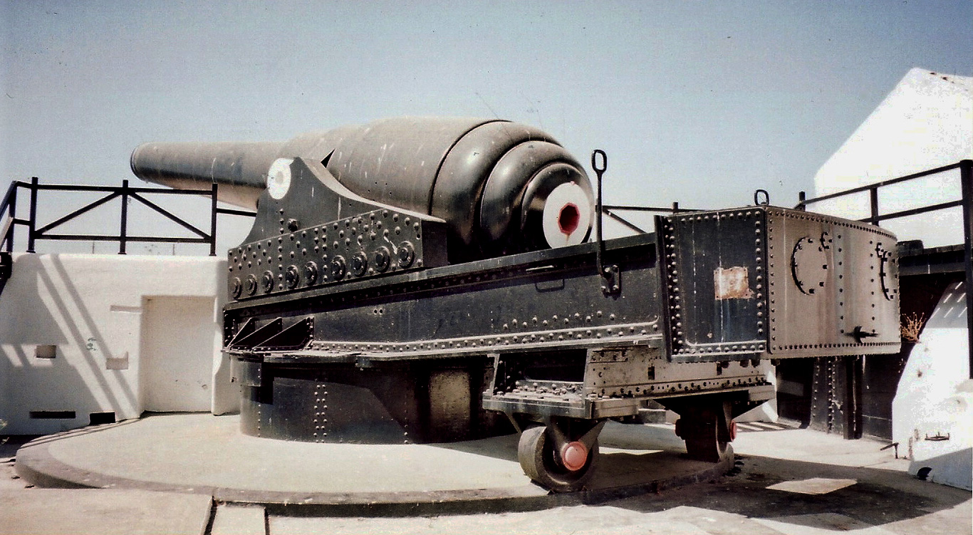 The 100 Ton Gun is situated at Napier of Magdala Battery. The 17.72 inch Rifled Muzzle loader, or 100 Ton Gun, has a barrel length of 32.65ft, of which 30.25ft are rifled and was capable of firing up to 8 miles.